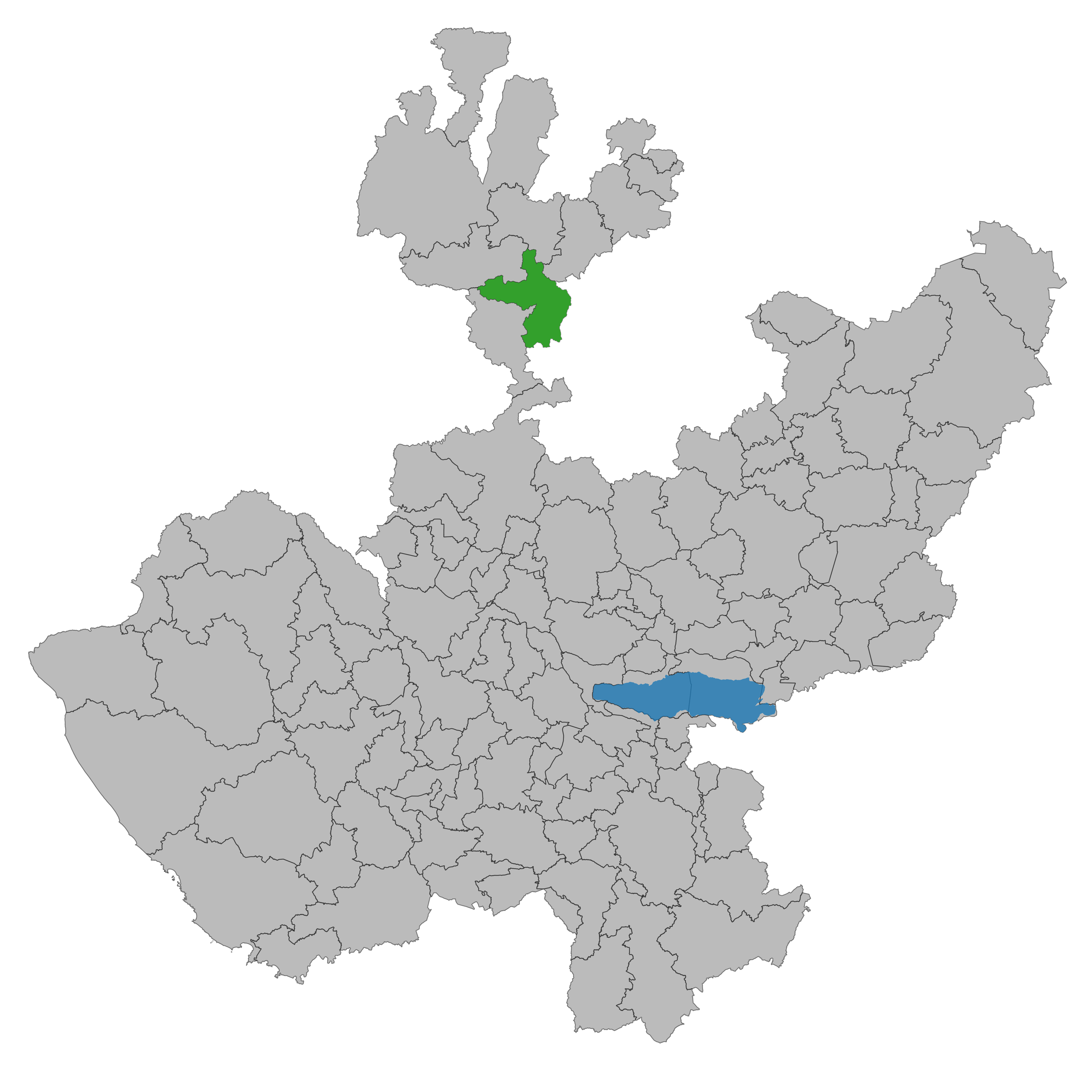 Municipality of Jalisco. Prepared with the software QGIS version 2.8.2 Wien & with information of SCINCE 2010 version 05/2013